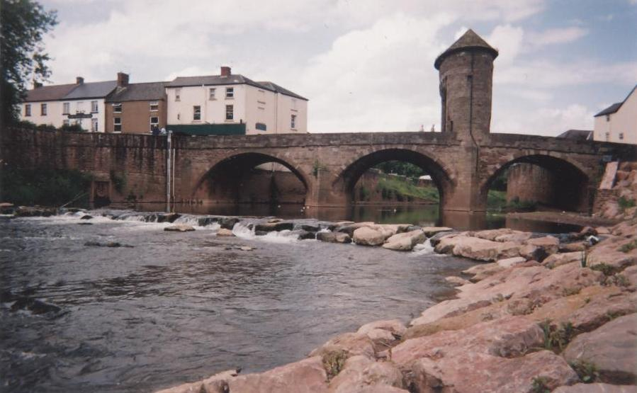 Photograph of Monnow Bridge and River Monnow in Monmouth taken by Carlwev May 2004 using disposable camera.